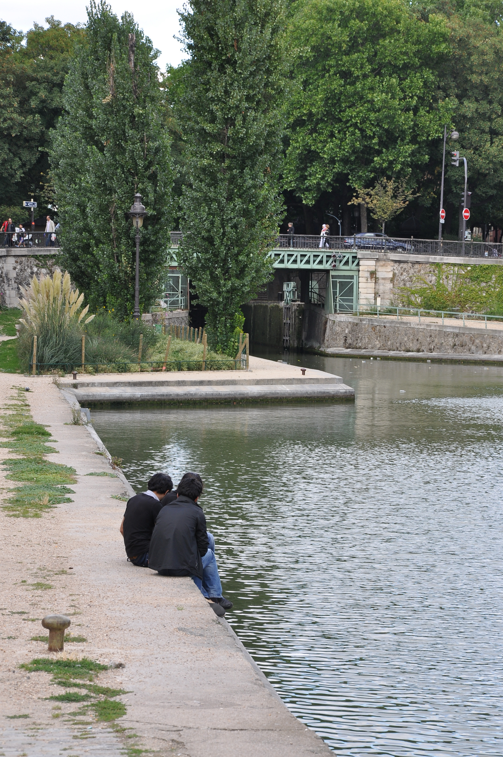 on the Canal Saint-Martin in Paris 10th district France.